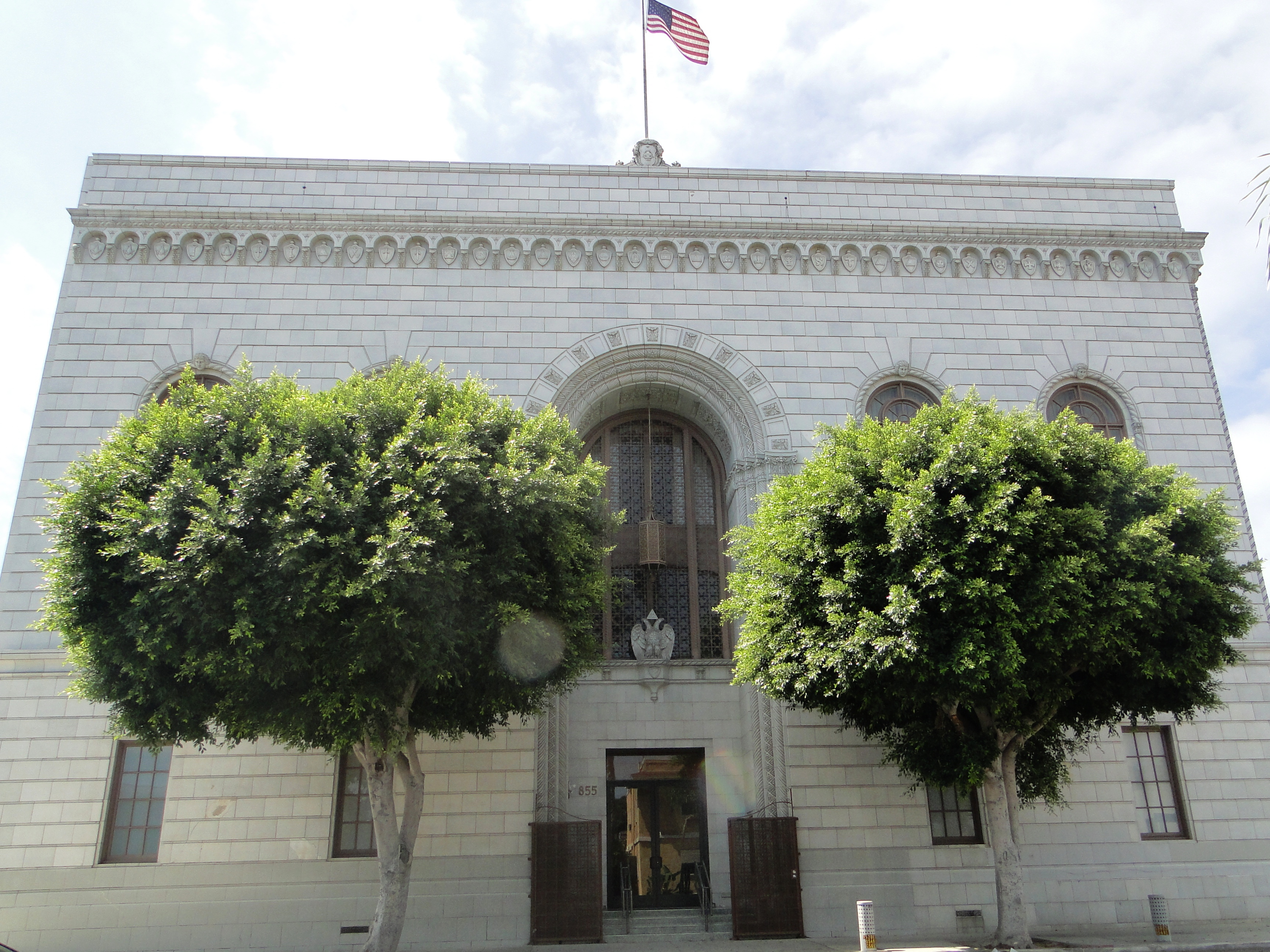 Scottish Rite Cathedral, 855 Elm Ave., Long Beach, California (Long Beach Historic Landmark 16.52.050)